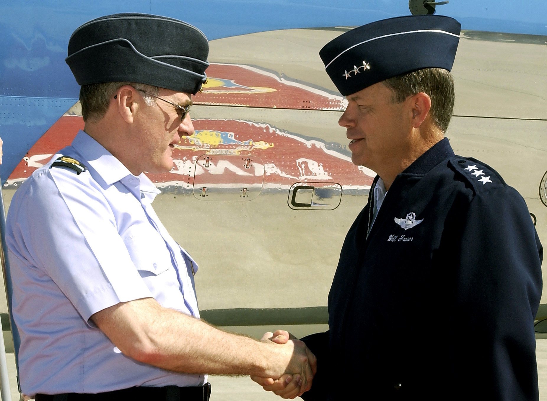 U.S. Air Force Air Combat Command Vice Commander Lt. Gen. William Fraser (right), greets Royal Air Force Chief of the Air Staff, Air Chief Marshal Sir Jock Stirrup (left), at Langley Air Force Base, Va